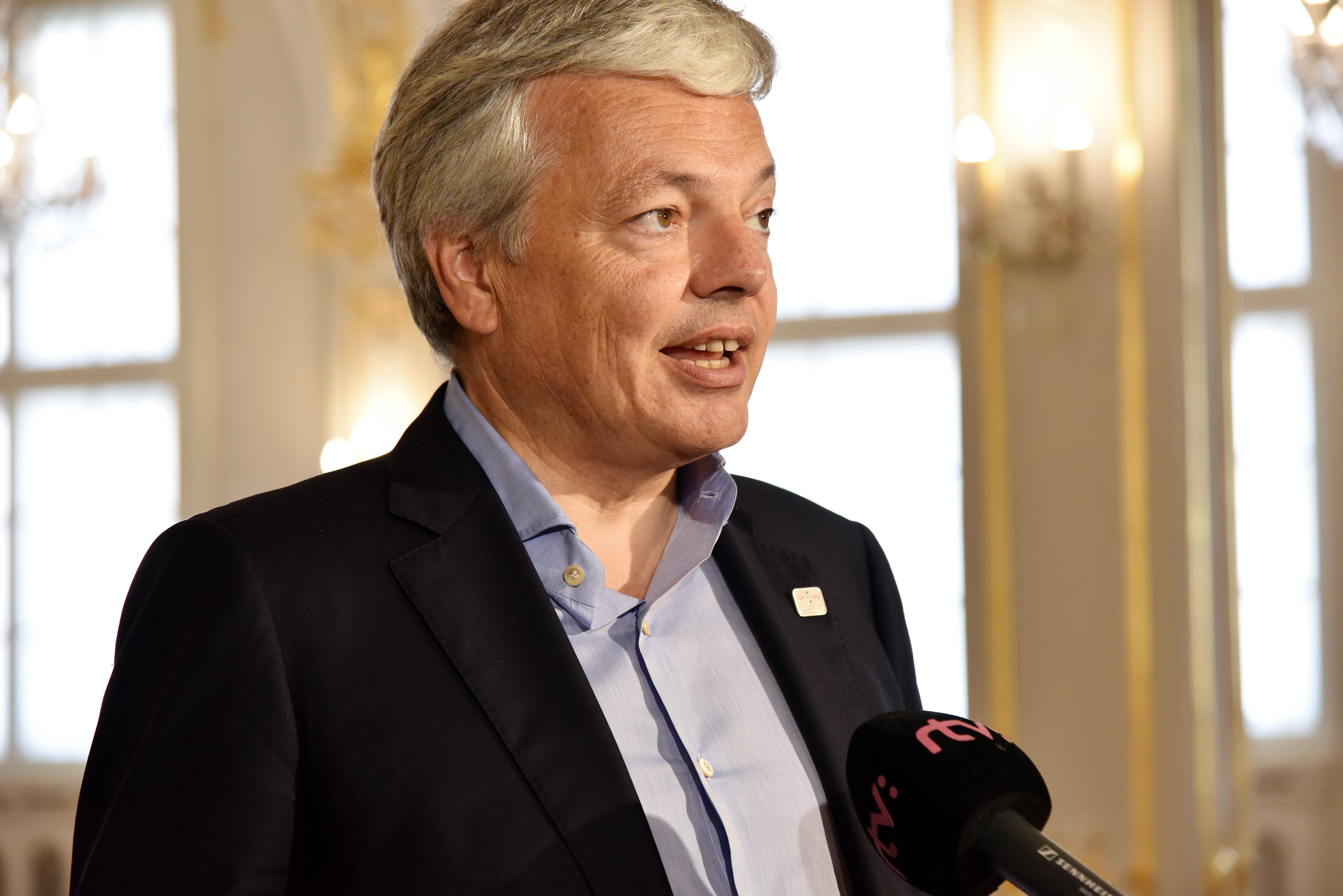 Mr.Didier Reynders, Deputy Prime Minister of Foreign Affairs and European Affairs ph halime sarrag